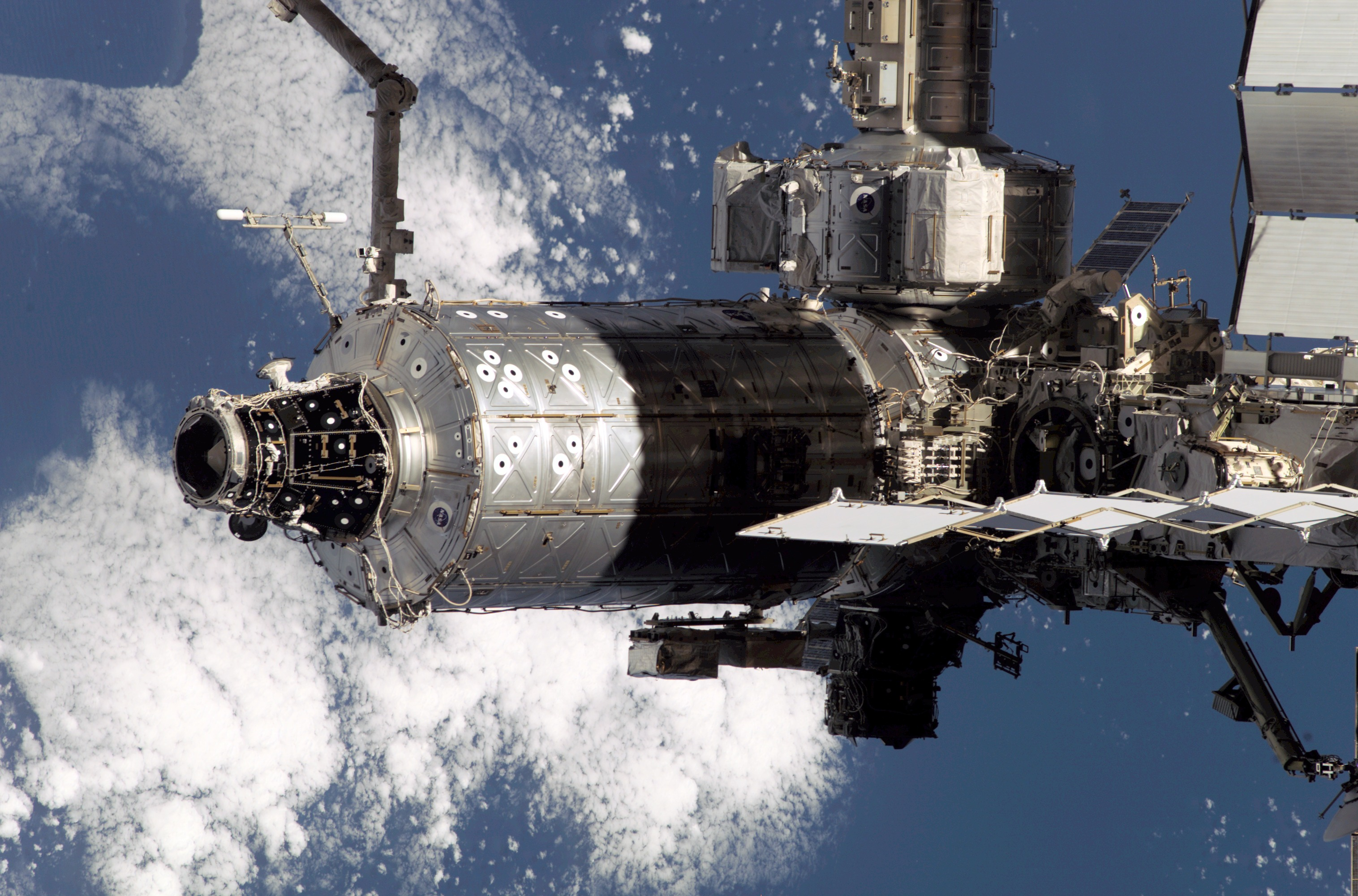 Destiny ISS module taken by STS-108 (NASA) original description: As seen in a medium view from a digital still camera aimed through a window on Endeavour's aft flight deck, the International Space Station (ISS), now staffed with its fourth three-person crew, is contrasted against a patch of the blue and white Earth during a farewell look from the shuttle following undocking. The Destiny laboratory is partially covered with shadows in the foreground (15 December 2001).